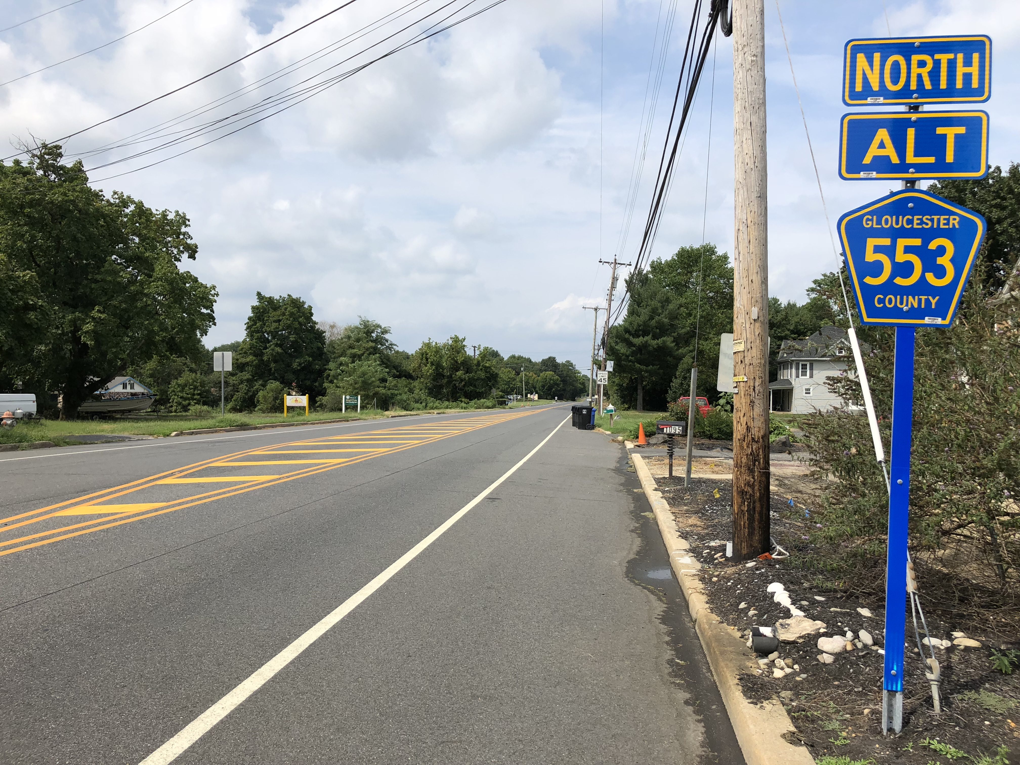 View north along Gloucester County Route 553 Alternate (Broadway) just north of Gloucester County Route 635 (Lambs Road) in Mantua Township, Gloucester County, New Jersey